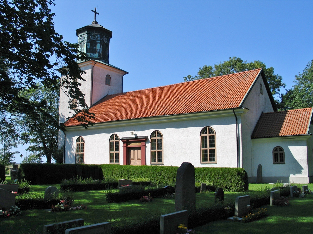 Segerstad Church. 1832, a decision was made to build a new church to the East of the old church's östtorn which was keep. But instead erected a new Church in the empire style of the ancients ' place by the Builder Peter Iceberg. The Church was built in 1839 and was officially opened October 29, 1843.